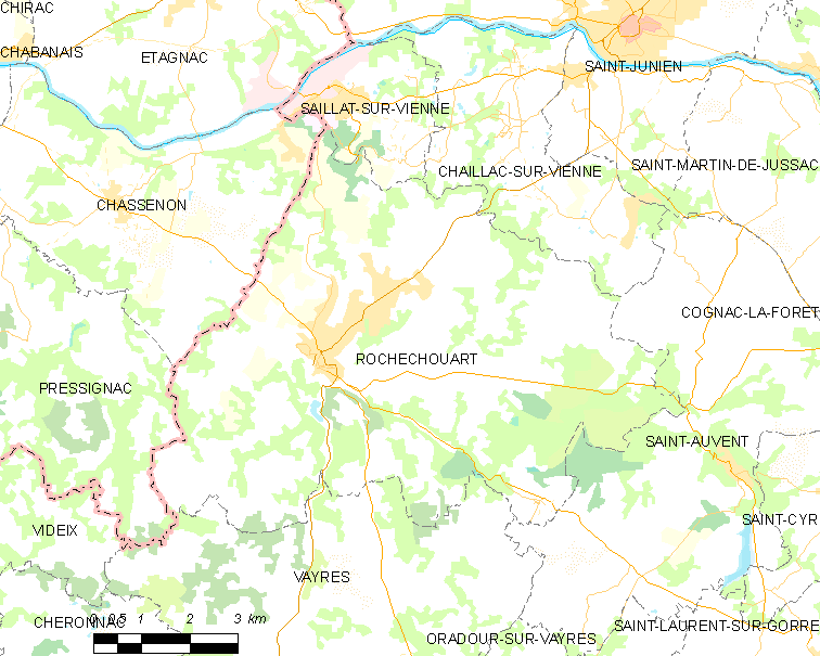 Map of French municipality Rochechouart